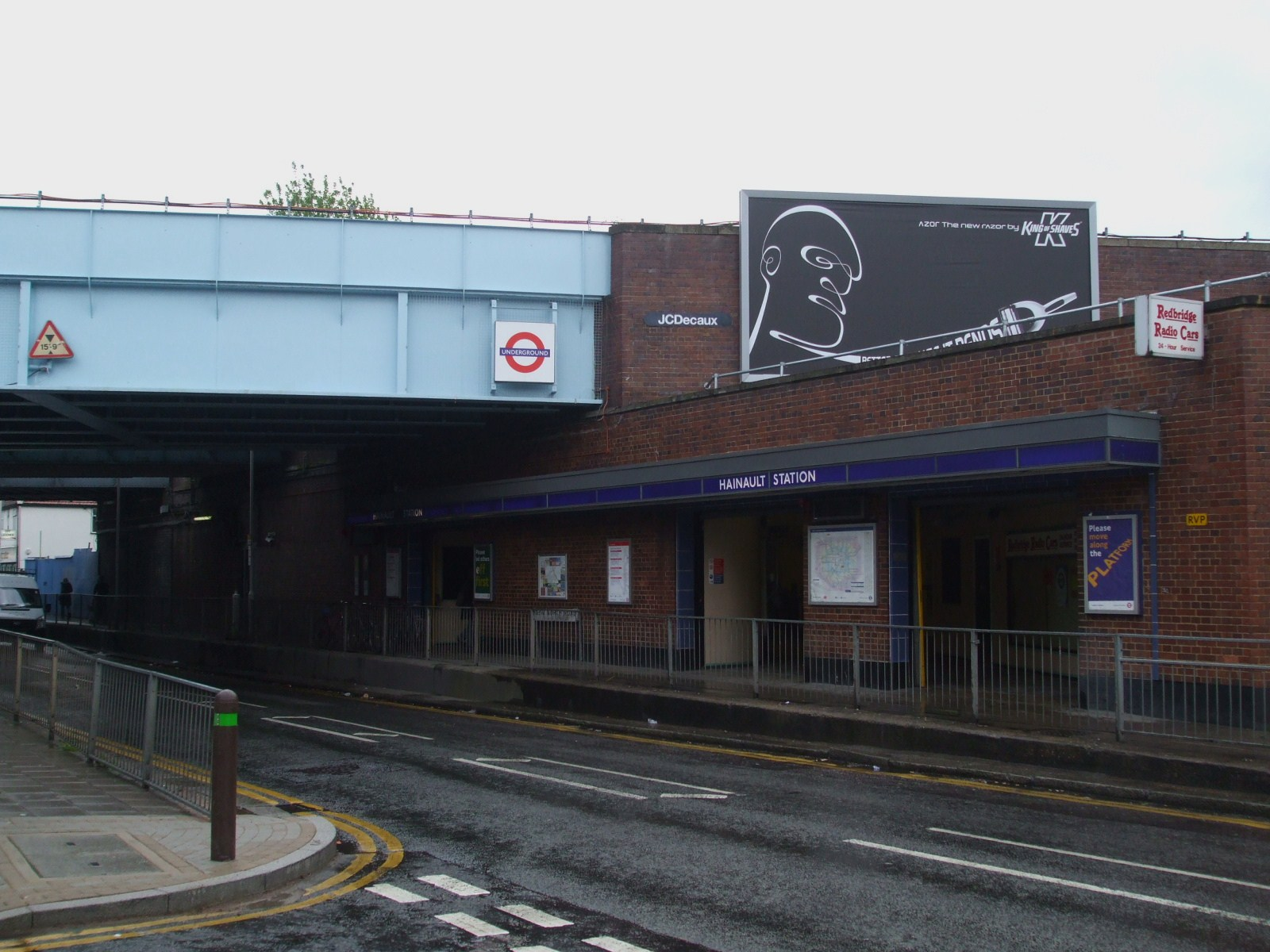 Hainault tube station entrance